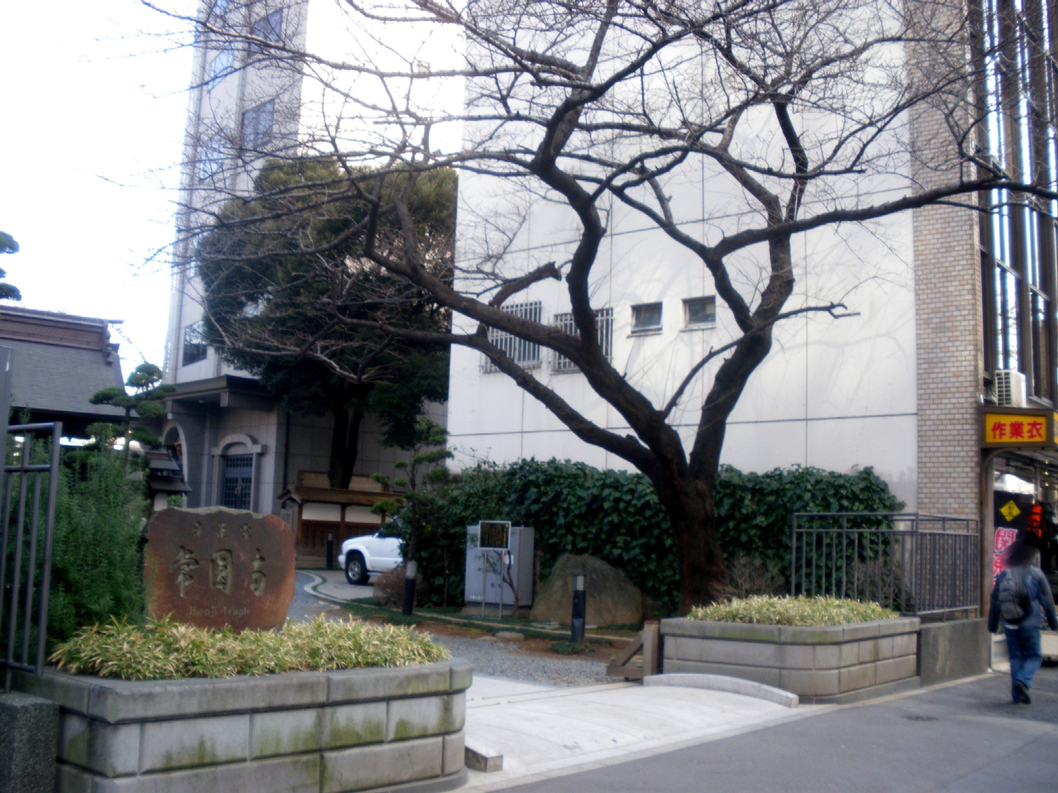 Joenji Temple(Nishishinjuku,Shinjuku,Tokyo)